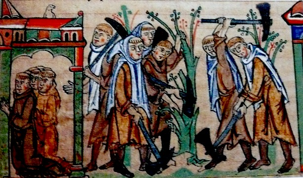 Cistercian monks at prayer at at work